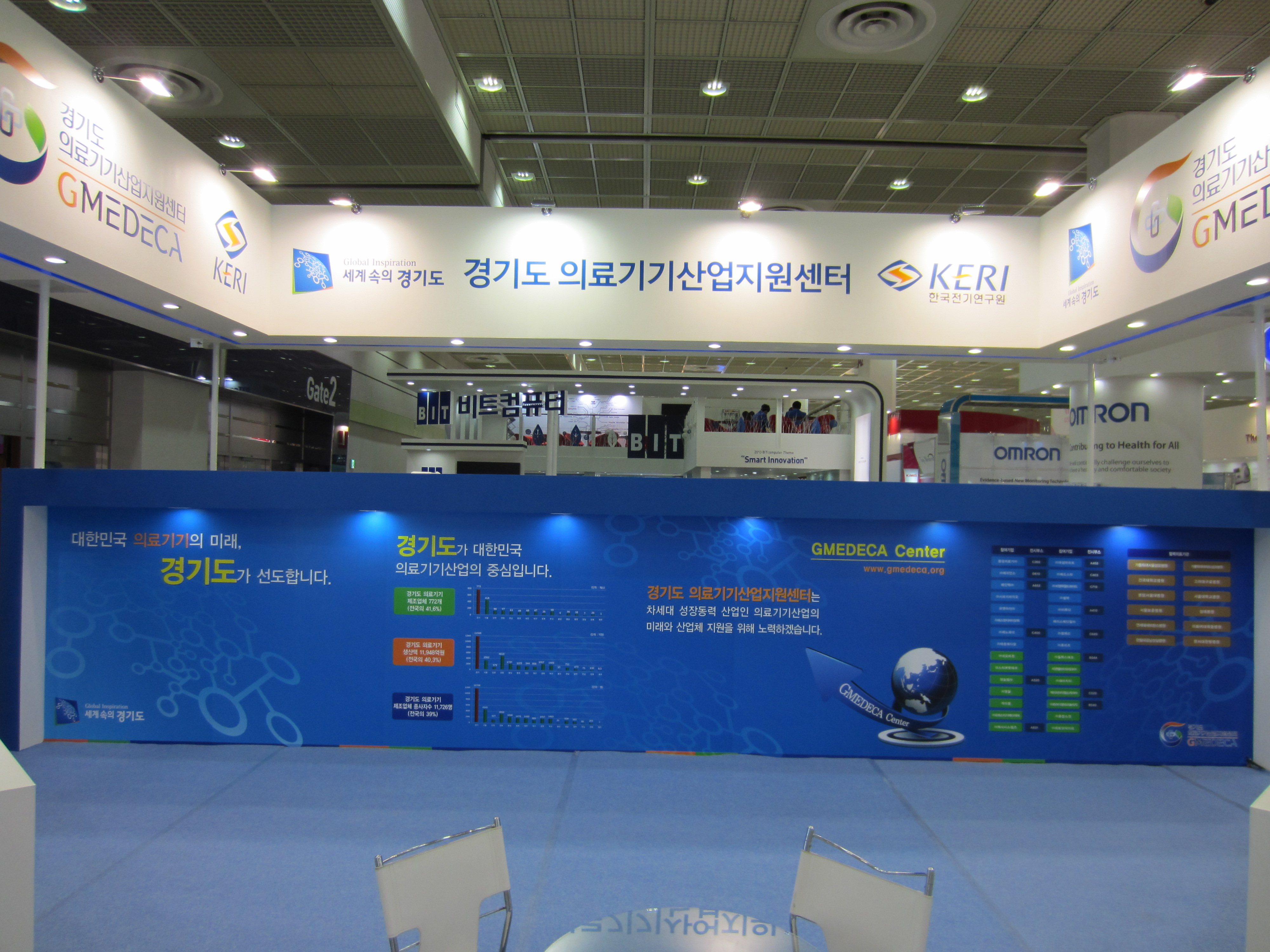 GMEDECA hall at KIMES